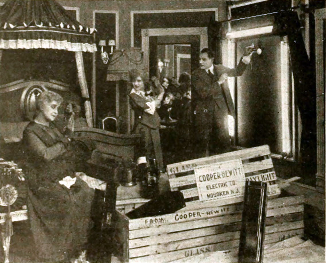 Illustration of an article in The Moving Picture World regarding the American mystery film serial The Mysteries of Myra (1916) showing a new stunt based on the use of Cooper Hewitt lights. The film serial starred Jean Sothern as Myra.